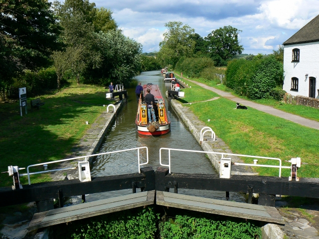 Kennet and Avon canal, Wootton Rivers A canal boat is just leaving the lock to the east.